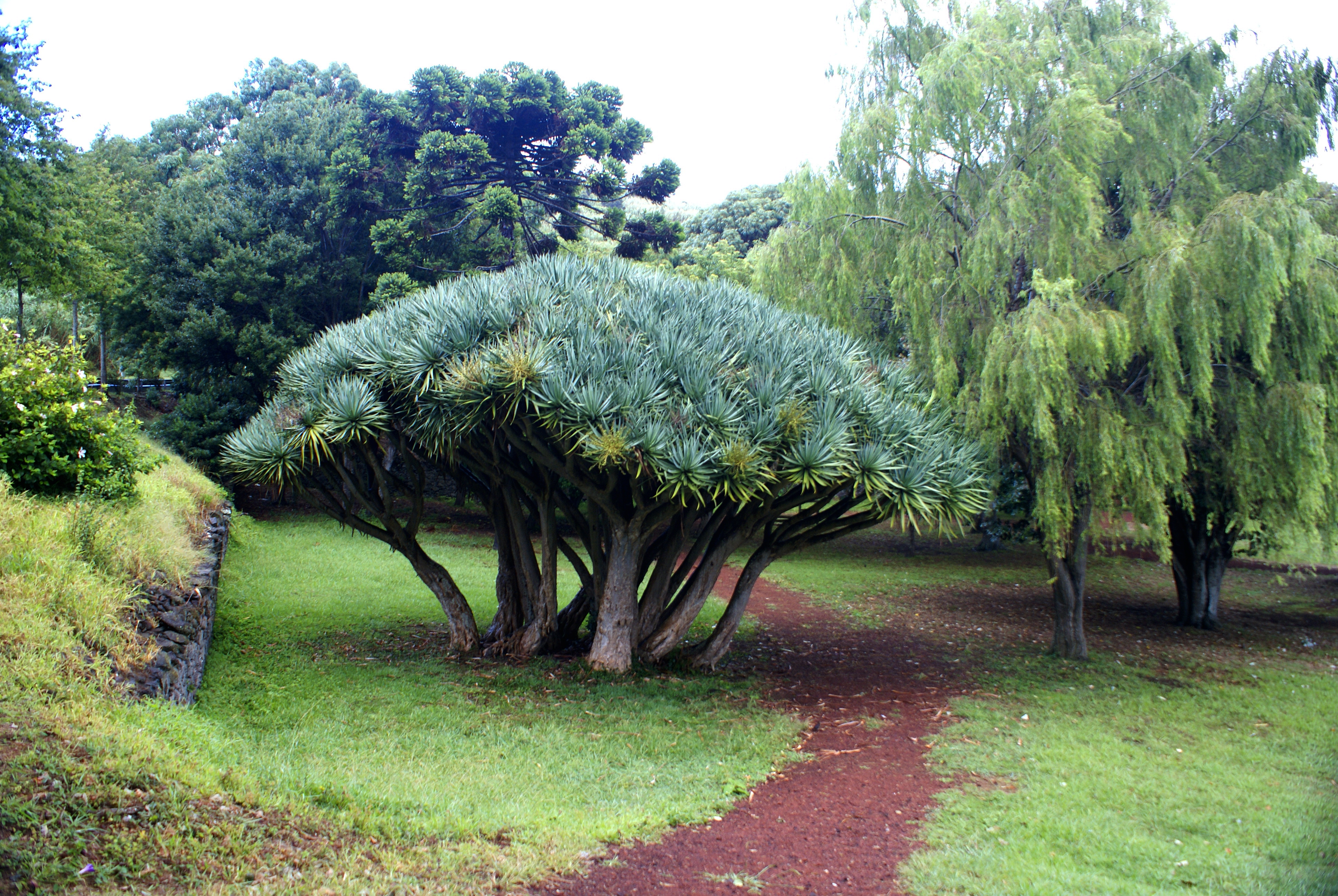 Dragueiros, Conceição Park, Conceição, Horta, Faial (Azores), Portugal